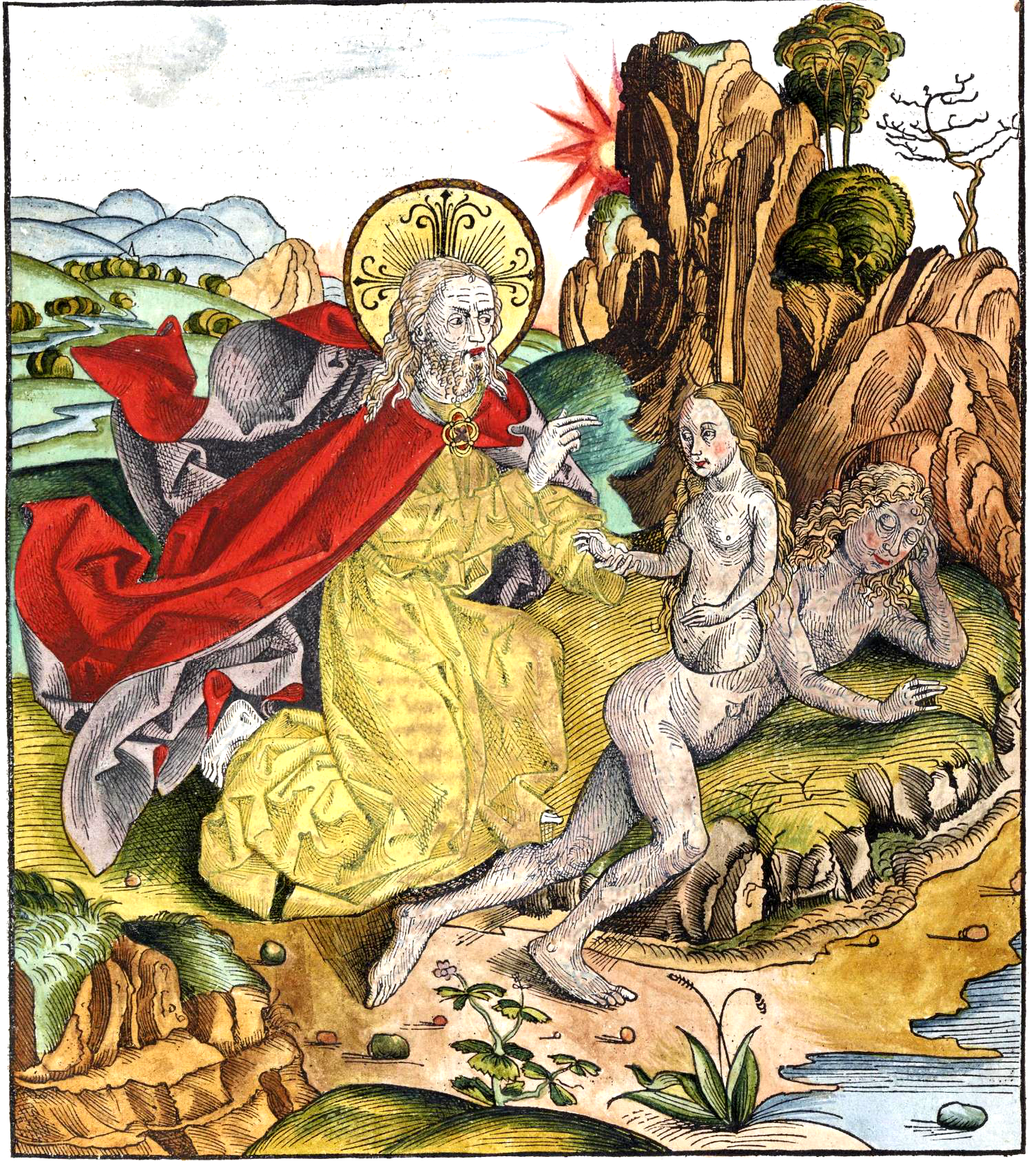 This is a part of a scan of an historical document: Title: Schedelsche Weltchronik or Nuremberg Chronicle